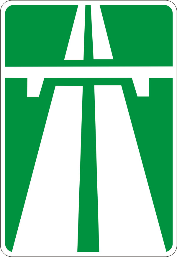 Motorway.